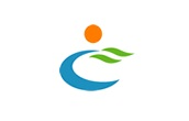 Flag of Tokugawa Saitama